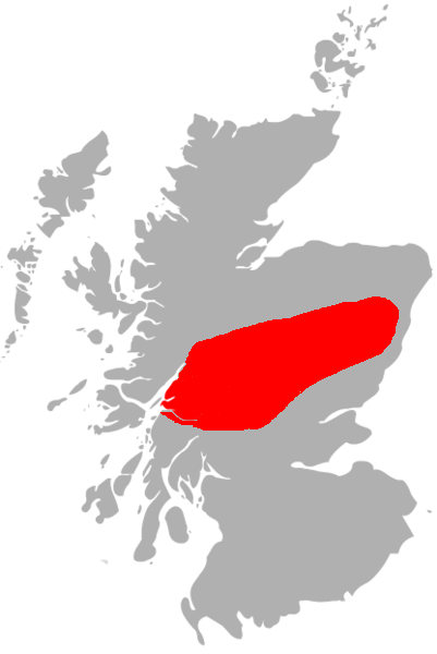 Position of Grampians in Scotland